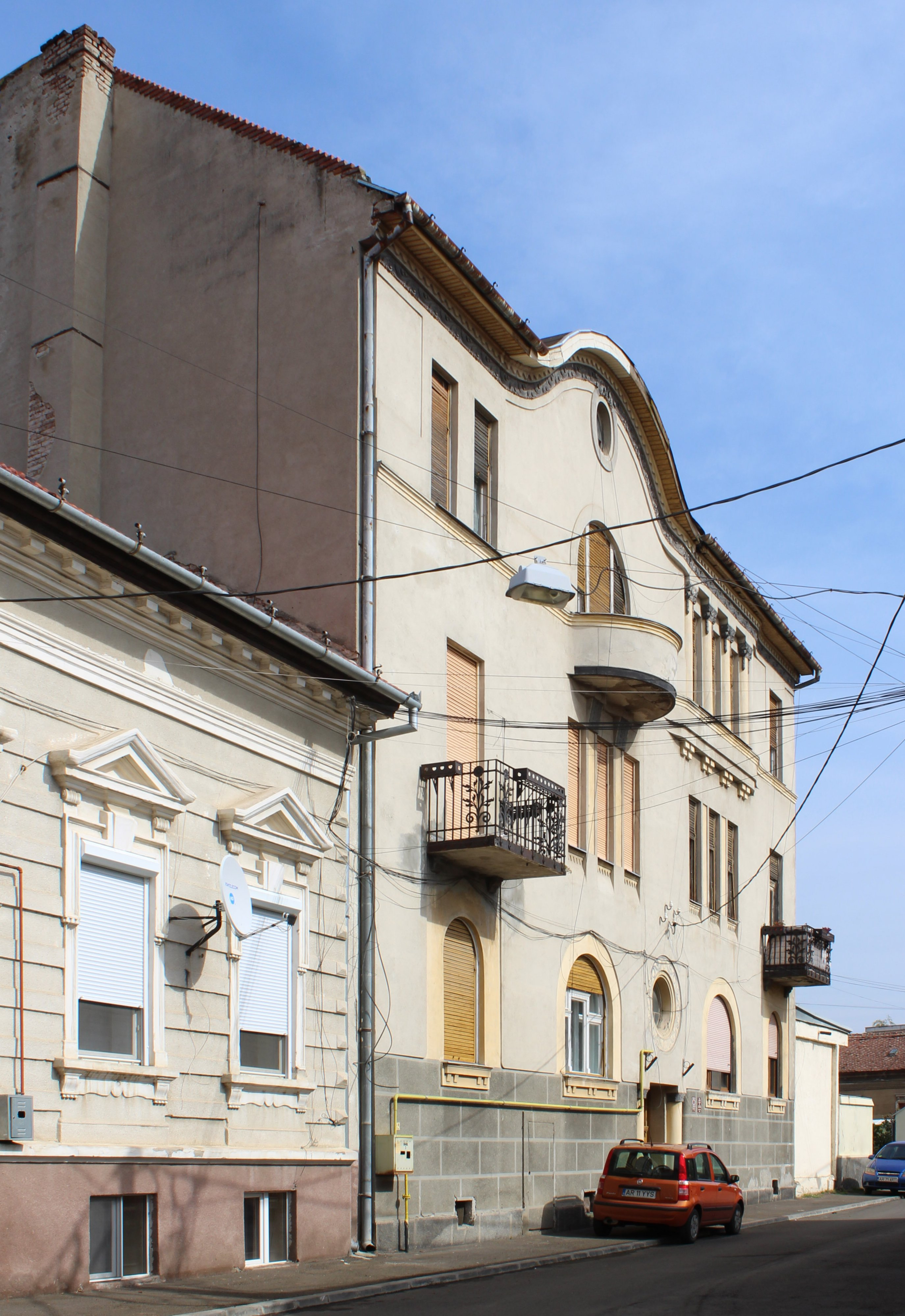 House, str Alexandru Gavra no 6, Arad, Romania, built about 1900.